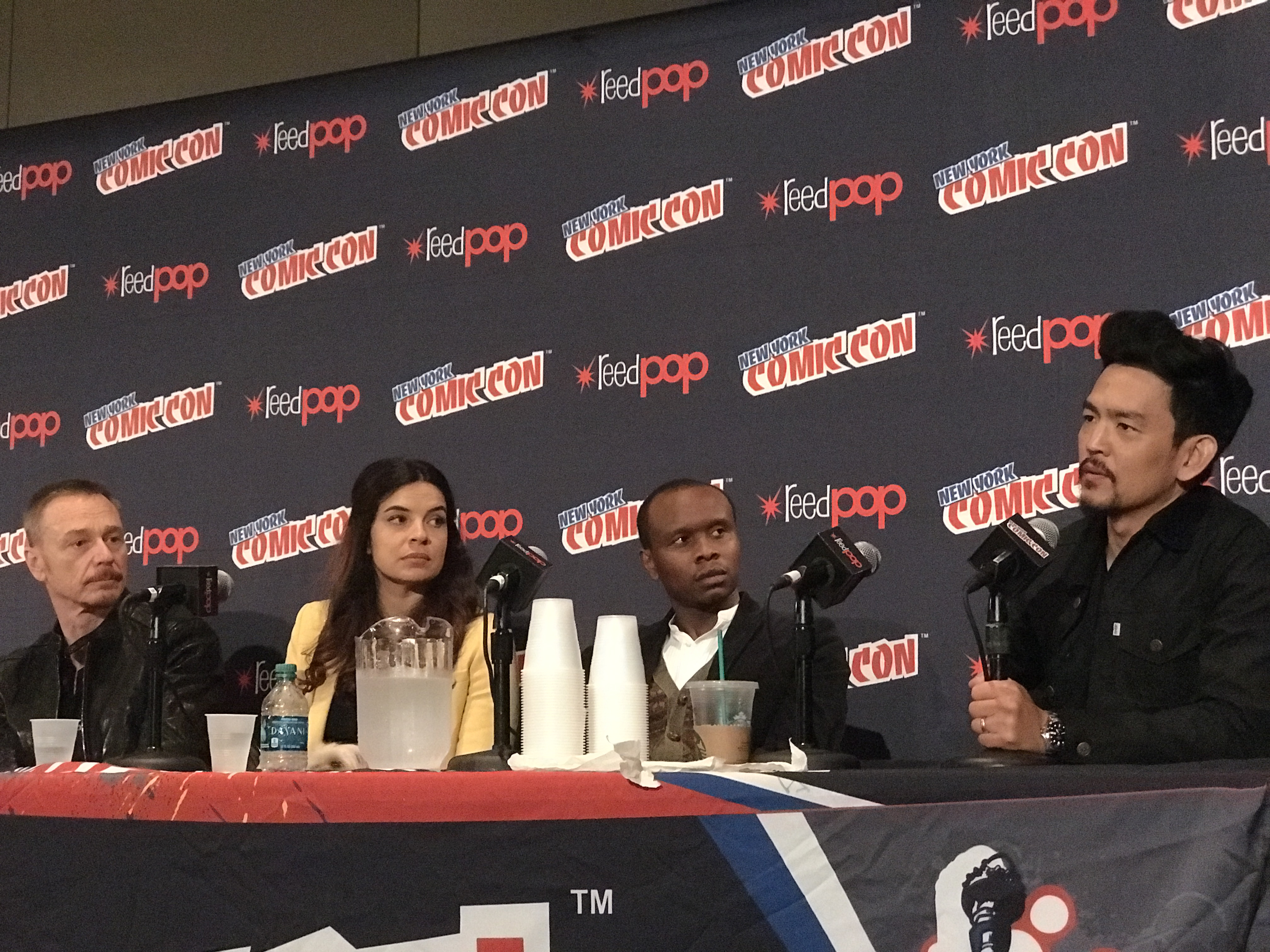 Panel discussion on the 2016 - 2018 TV series The Exorcist on Sunday, October 8, 2017 at the Jacob K. Javits Convention Center in Manhattan, Day 4 of the 2017 New York Comic Con. From left to right: Actors Ben Daniels, Zuleikha Robinson, Kurt Egyiawan and John Cho. This photo was created by Luigi Novi. It is not in the public domain, and use of this file outside of the licensing terms is a copyright violation.